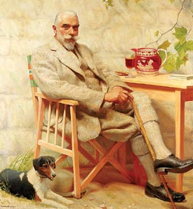 Portrait of Alfred E Goodey with Fox Terrier